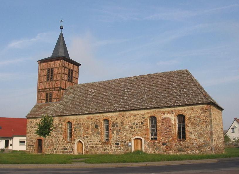 Stonechurch in Gräben, built probably in the second half of the 13th century. The village Gräben is together with the hamlet Dahlen a municipality in the district Potsdam Mittelmark, state Brandenburg, Germany. The village appertains to the nature park Naturpark Hoher Fläming.